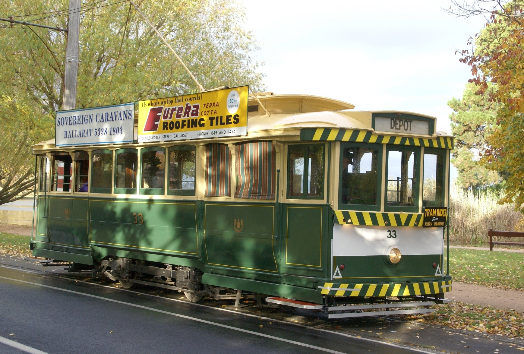 Service_3_Ballarat_4May2014